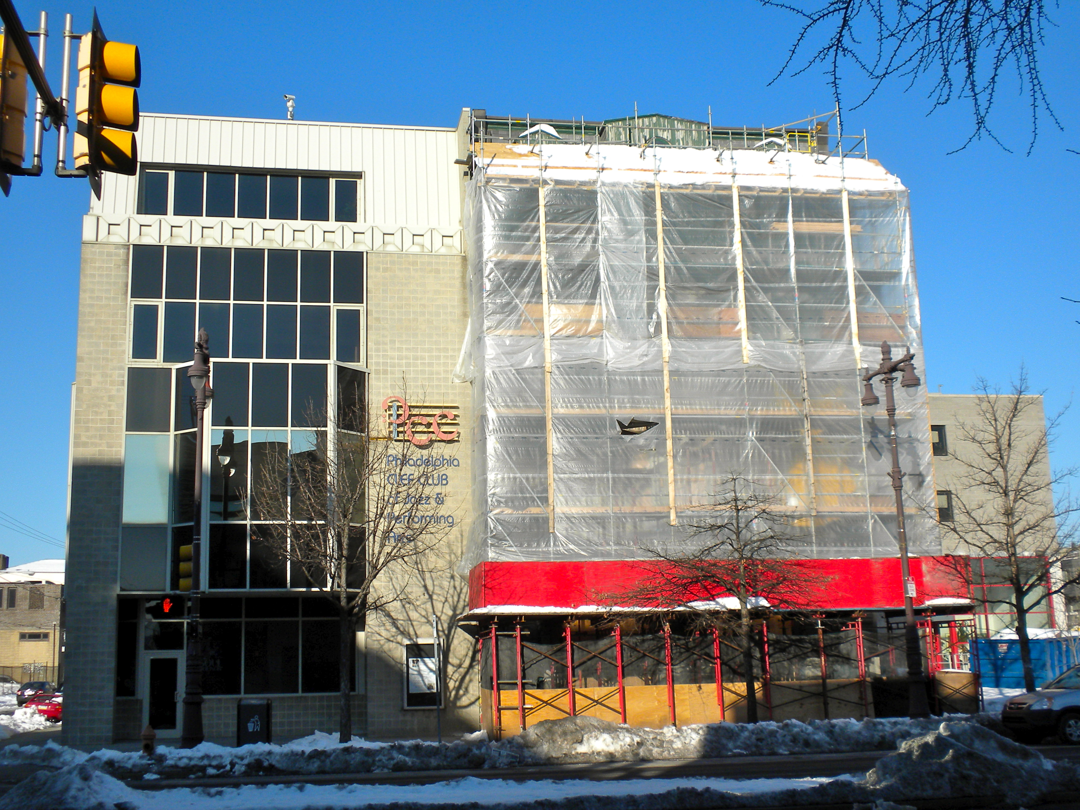 Franklin Hose Company No. 28, on NRHP since December 3, 1980, at 730–732 South Broad Street in Southwest Center City, Philadelphia. This isn't a great photo since the Franklin Hose appears to be the building covered in plastic (look at the top to see how old it is) 728 is the building on the right in back, 732 is the music building on the left. Franklin Hose is undergoing some sort of renovation.